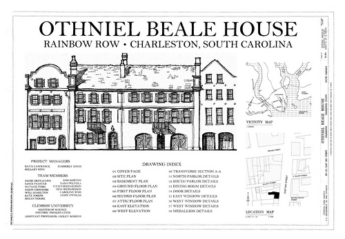 Photograph of drawing of the Othniel Beale House, Rainbow Row, 99–101 East Bay Street, Charleston, Charleston County, South Carolina. The Historic American Buildings Survey, Library of Congress, Washington, D. C.